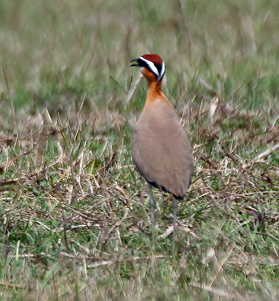 Indian Courser Cursorius coromandelicus at Keoladeo National Park, Bharatpur, Rajasthan, India.